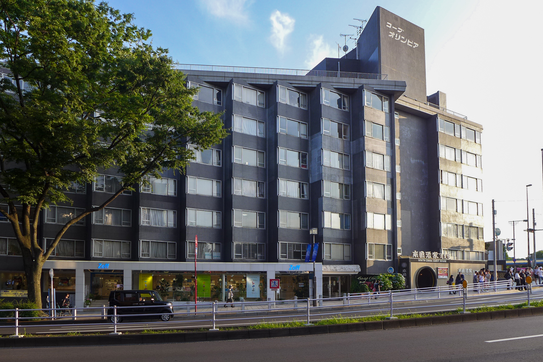 Co-op Olympia